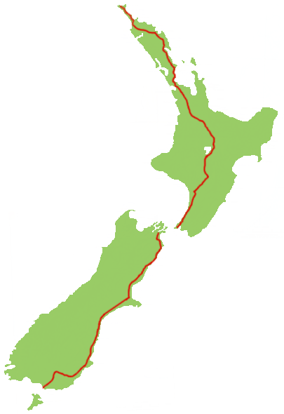 New Zealand State Highway 1